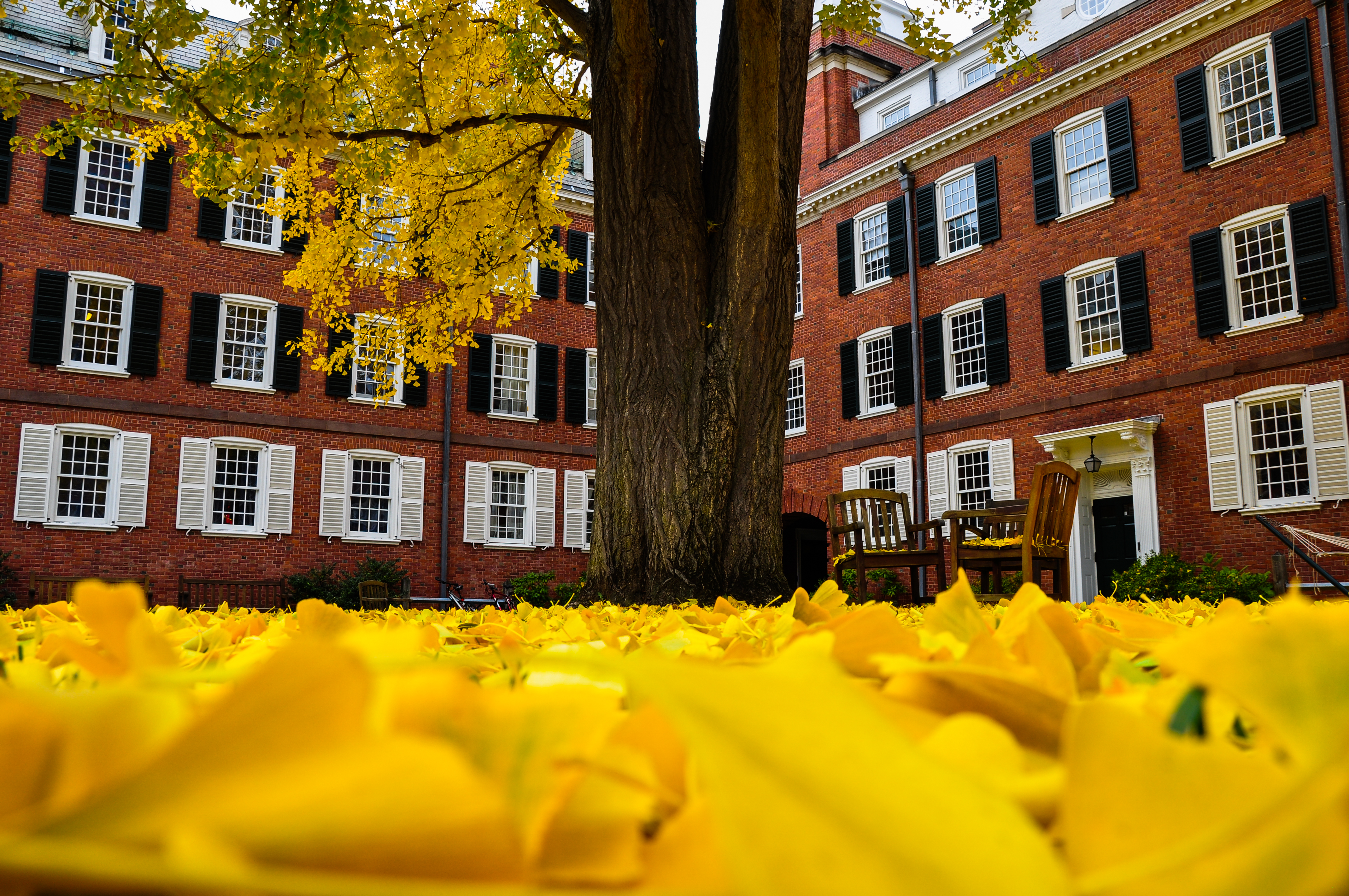 Fallen leaves of the ginkgo tree in Timothy Dwight College, Yale University.